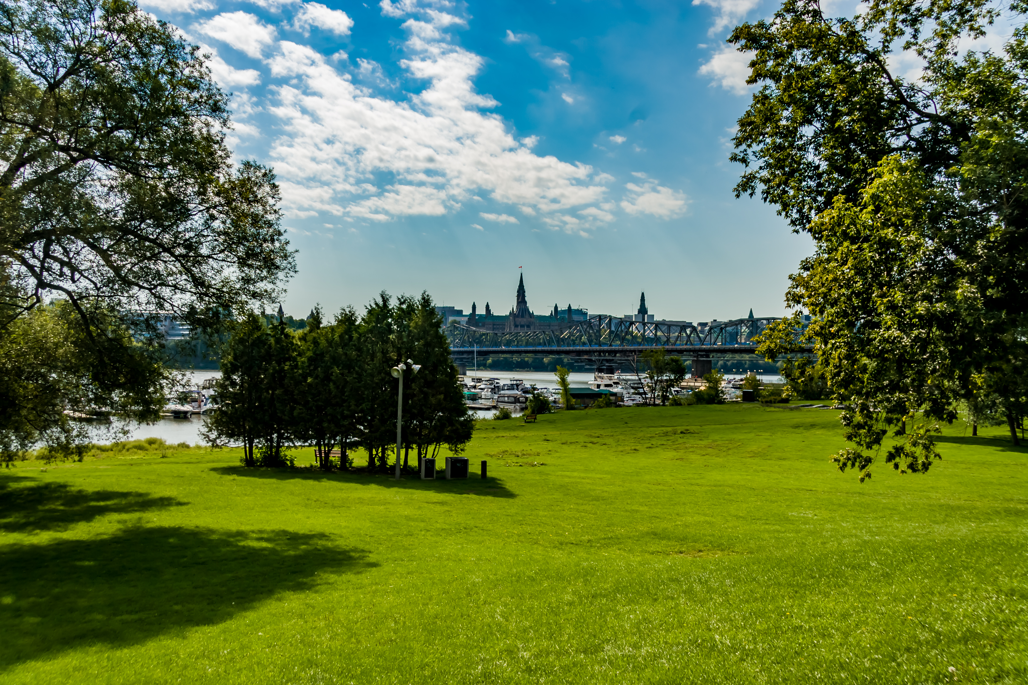 Jacques Cartier Park is a park in Gatineau, Quebec, across the river from the National Gallery of Canada in Ottawa. It is named for French explorer Jacques Cartier, who arrived at the mouth of the Ottawa River while he was looking for the Northwest Passage. The National Capital Commission (NCC) uses the site to run one of its popular annual events, Winterlude every February. It is also a busy site on Canada Day, offering activities such as music and dance shows throughout the day, entertainment and activities for children, and demonstrations by the Canadian Forces SkyHawks parachute team. Maison Charron, the oldest surviving house in Hull, is located in the park. It was restored by the NCC in 1985 and is used for various activities.